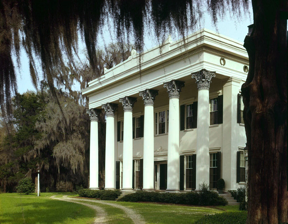 Millford, Wedgefield-Rimini Road, Pinewood, Sumter County, SC. NORTHWEST (FRONT) FACADE, LOOKING EAST.